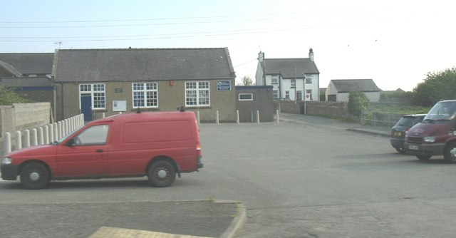 Ysgol Gymuned Bryngwran Community School, High Street, Bryngwran The Reports of the Commissioners of Enquiry into the state of education in Wales published in 1847 states that there was a church-school at Bryngwran, but it was poorly attended, the children being "left to wander about in the road in great numbers idle, or doing mischief." The vicar, the Rev Mr Trevor, complained "The parents send their children to school, or keep them away, just as they please. If they are punished for being absent, the parents remove them altogether, and show their resentment by ill-treating the master". The master was paid an annual salary of £9 for all his troubles. Today, Bryngwran children have an excellent school to go to.